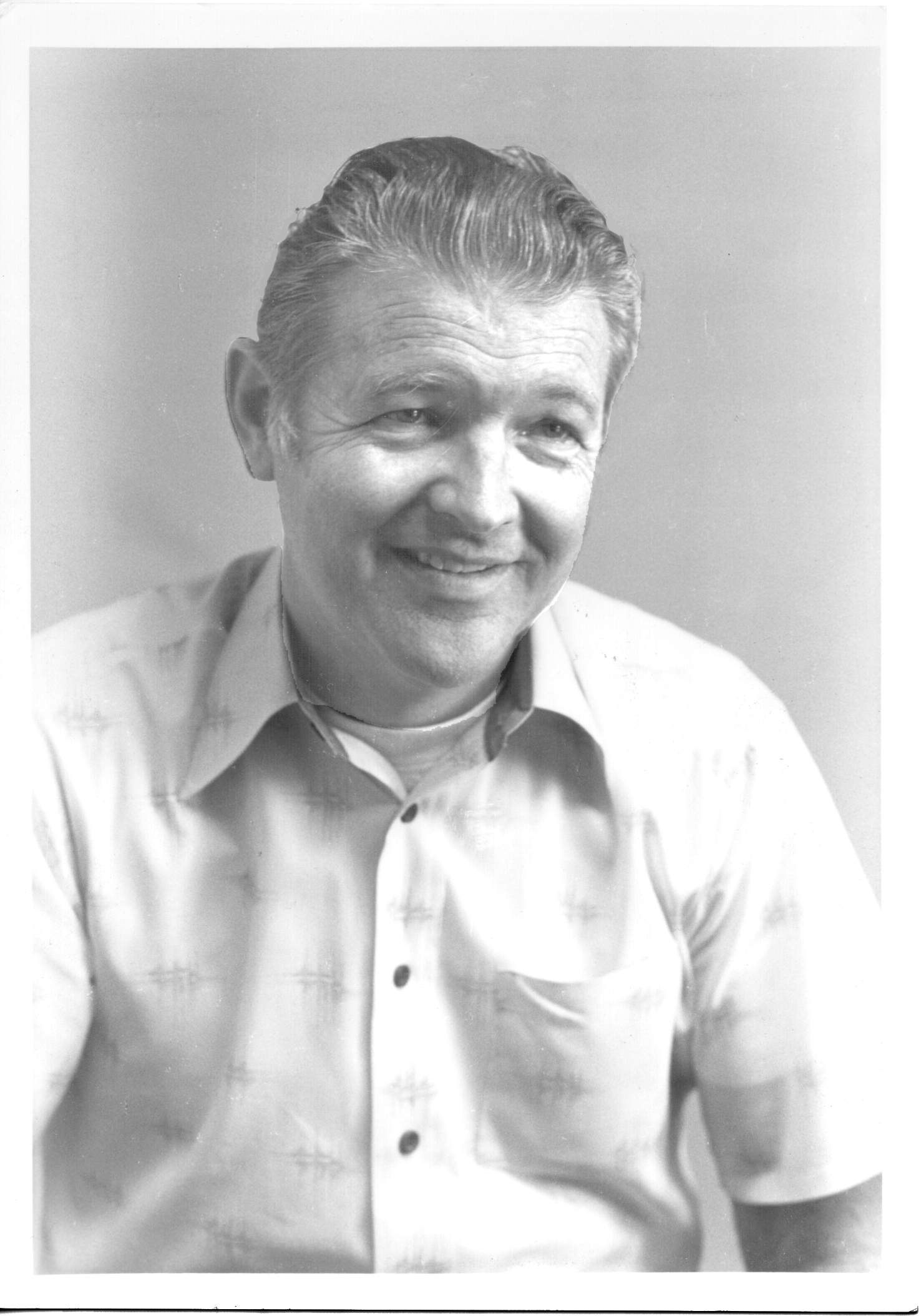 A picture of Keith Black, drag racing engineer and founder of Keith Black Racing Engines.